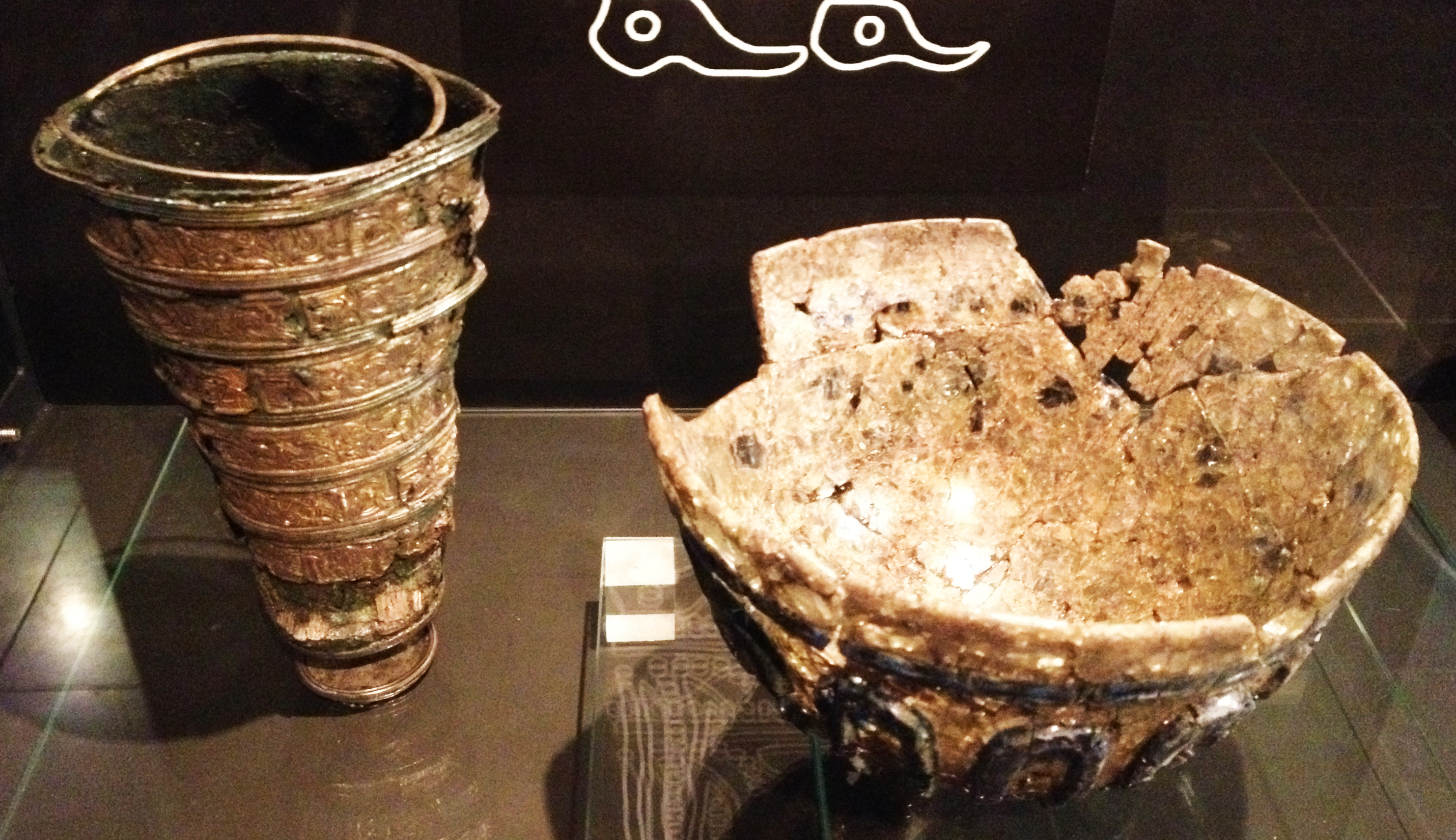 A chalice and bowl found in the iron age temple of Uppåkra, Sweden.